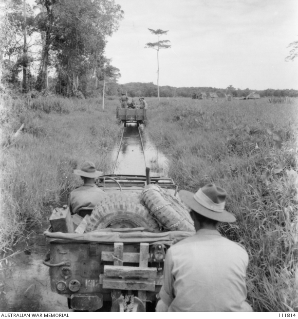 BEAUFORT AREA, BORNEO. 6 JULY 1945. A JEEP TRAIN CARRYING HEADQUARTERS 24TH INFANTRY BATTALION EQUIPMENT AND SUPPLIES, ON THE BEAUFORT-JESSELTON RAILWAY LINE.